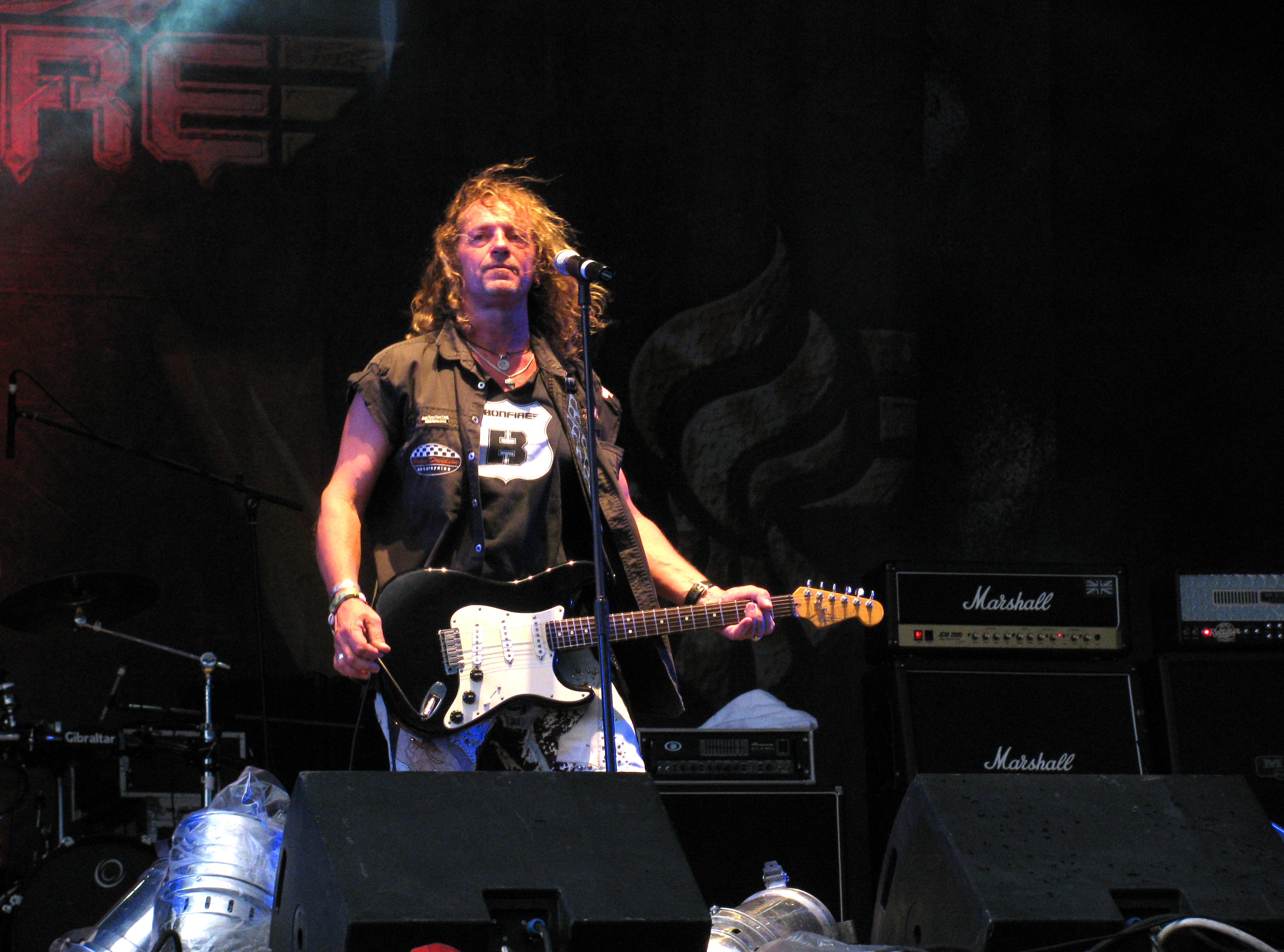 Claus Lessmann (Bonfire) playing at Global East Rock Festival 2010